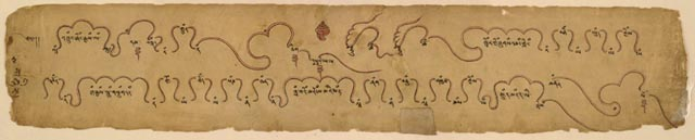 Tibet musical score